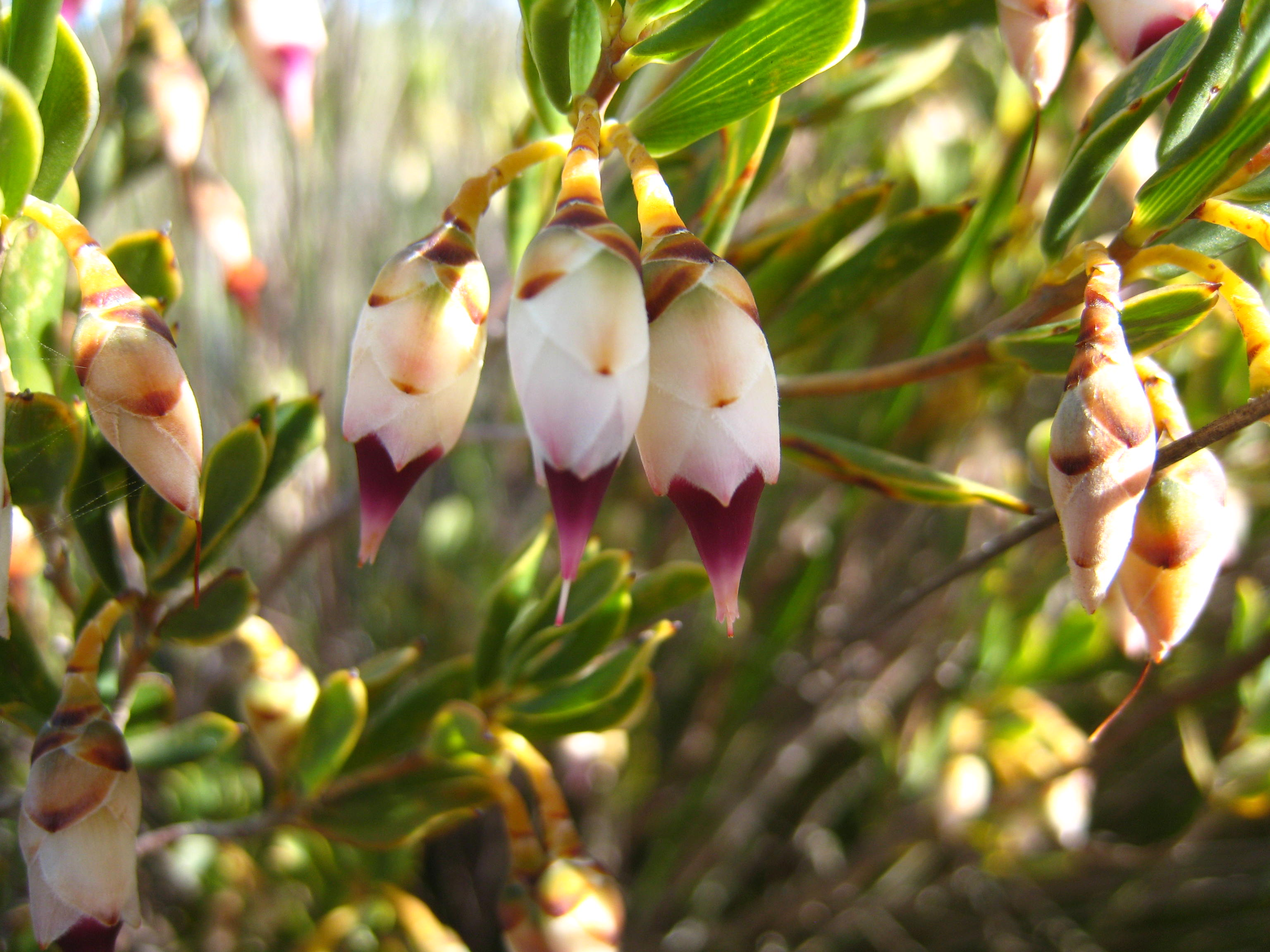 Conostephium pendulum, Kensington Bushland, Kensington, Perth, Western Australia